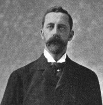 Hamilton Fish (1849-1936)